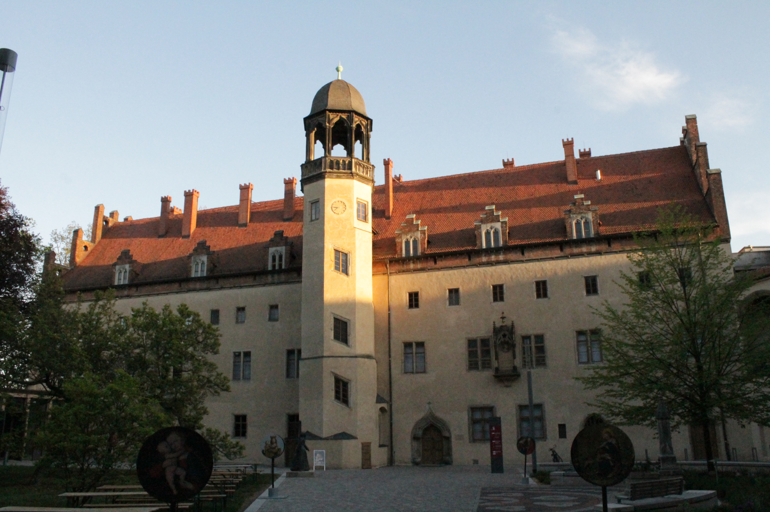 Lutherhaus, Wittenberg